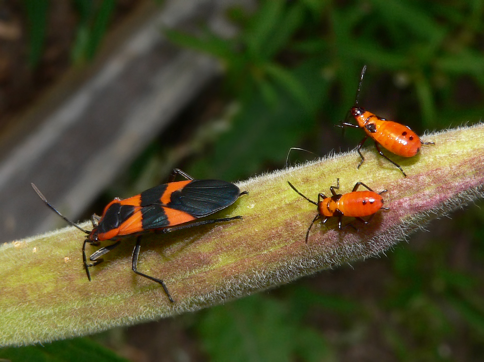 Large milkweed bug (Oncopeltus fasciatus) adult and two juveniles. Photo by Greg Hume.